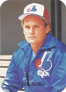 Baseball card of Montreal Expos player Bob Sebra from the 1987 Broder Rookies set.